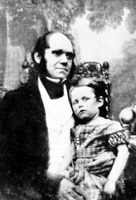 Charles Darwin (age 33) and his son William (notably the only picture known of Charles Darwin and another member of his family). Scanned from Karl Pearson, The Life, Letters, and Labours of Francis Galton. Daguerrotype originally from the 1842.